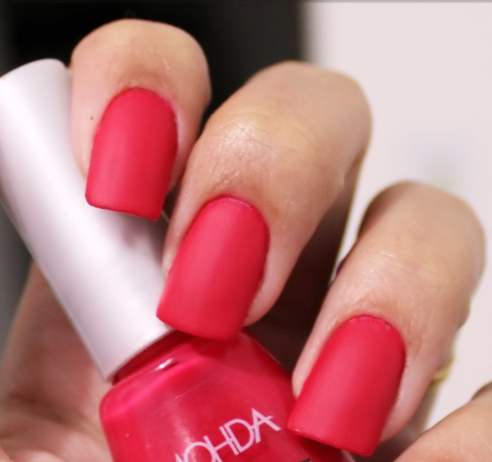 Frente Única - Mohda.